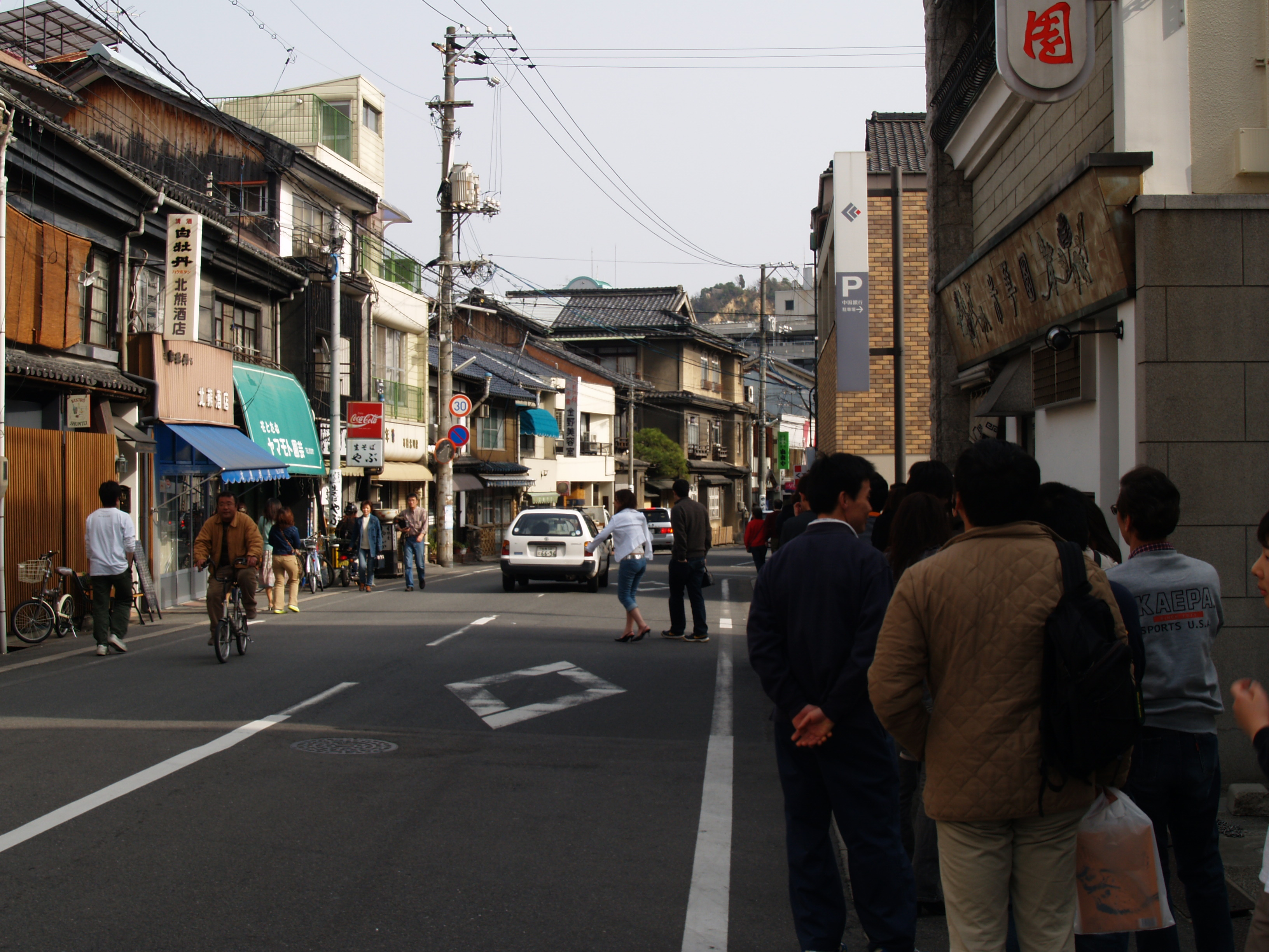 The queue on right side is people who want to enter to "Shu-Ka-En", the most famous Ramen shop in Onomichi.Onomichi is Japanese old town and famous for its slope.Onomichi city and Ramen shop